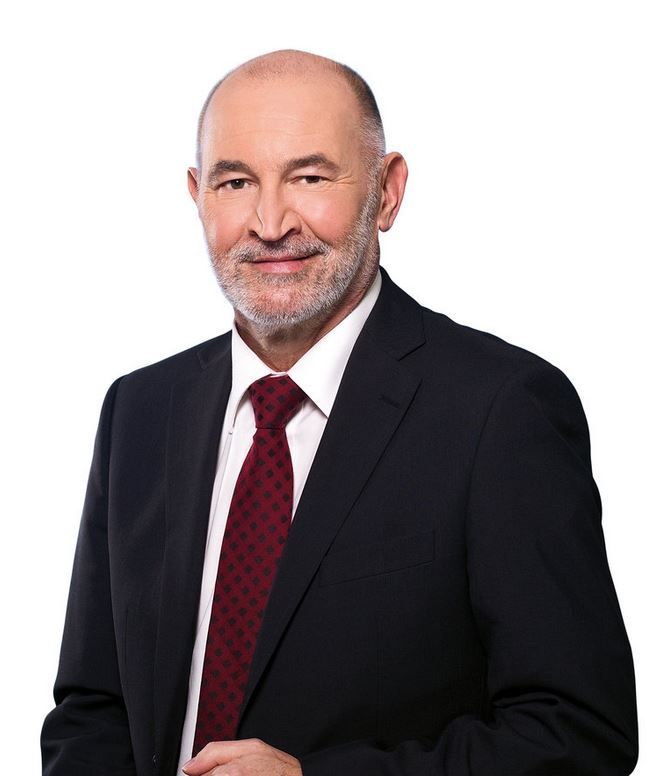 Peter Heger, Austrian politician (SPÖ) and member of the Federal Council